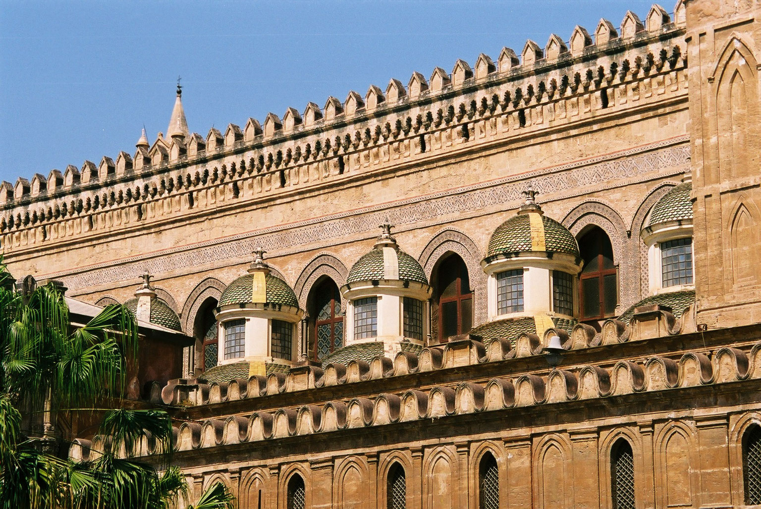 Cathedral of Palermo Small baroque cupolas on the lateral nave